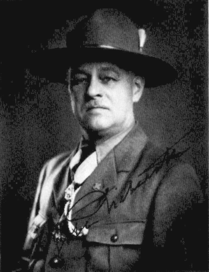 Picture of Ebbe Lieberath, founder of Swedish scouts